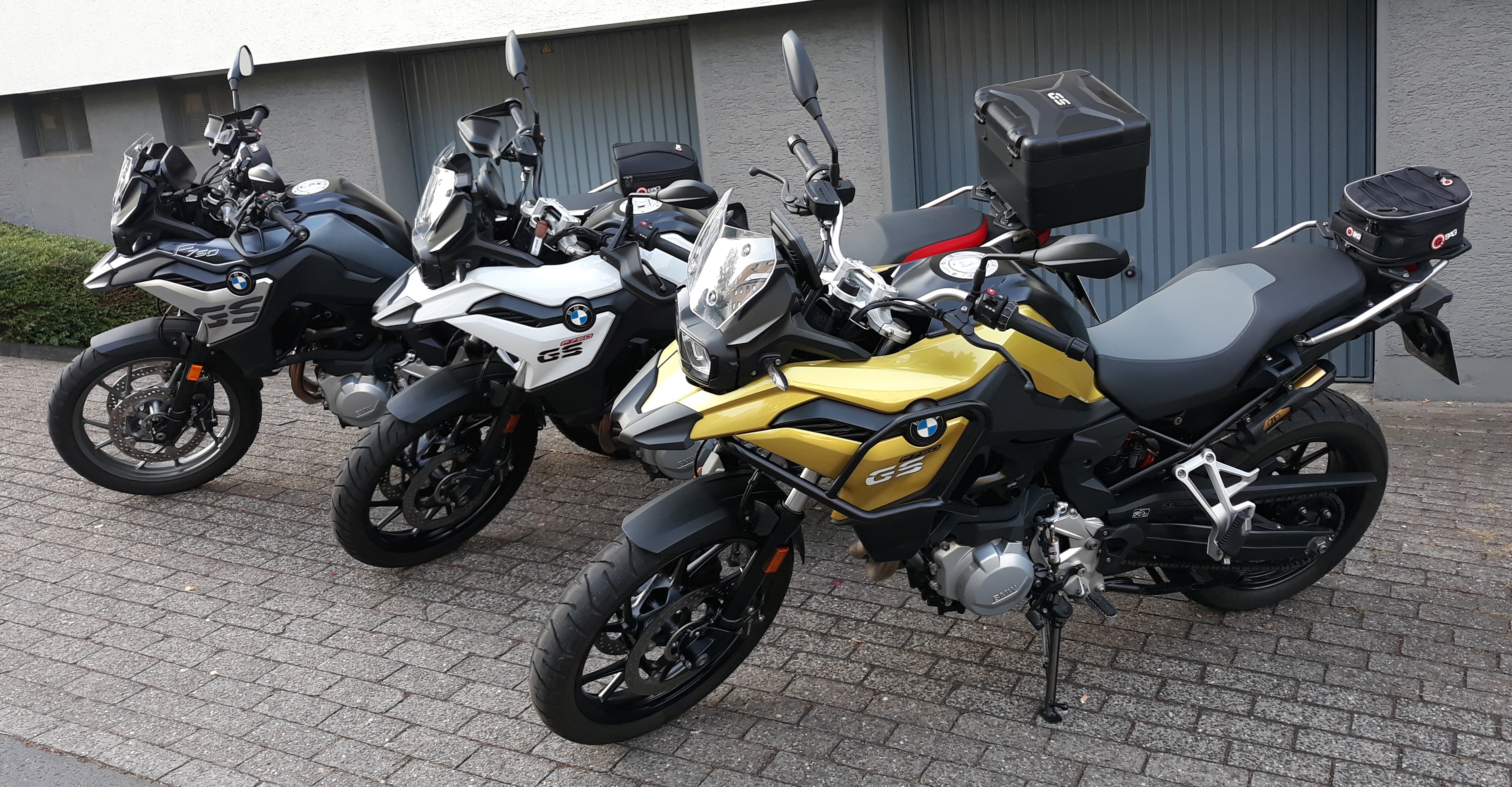 BMW F 750 GS, year built 2018, in all three 2018 available color variants